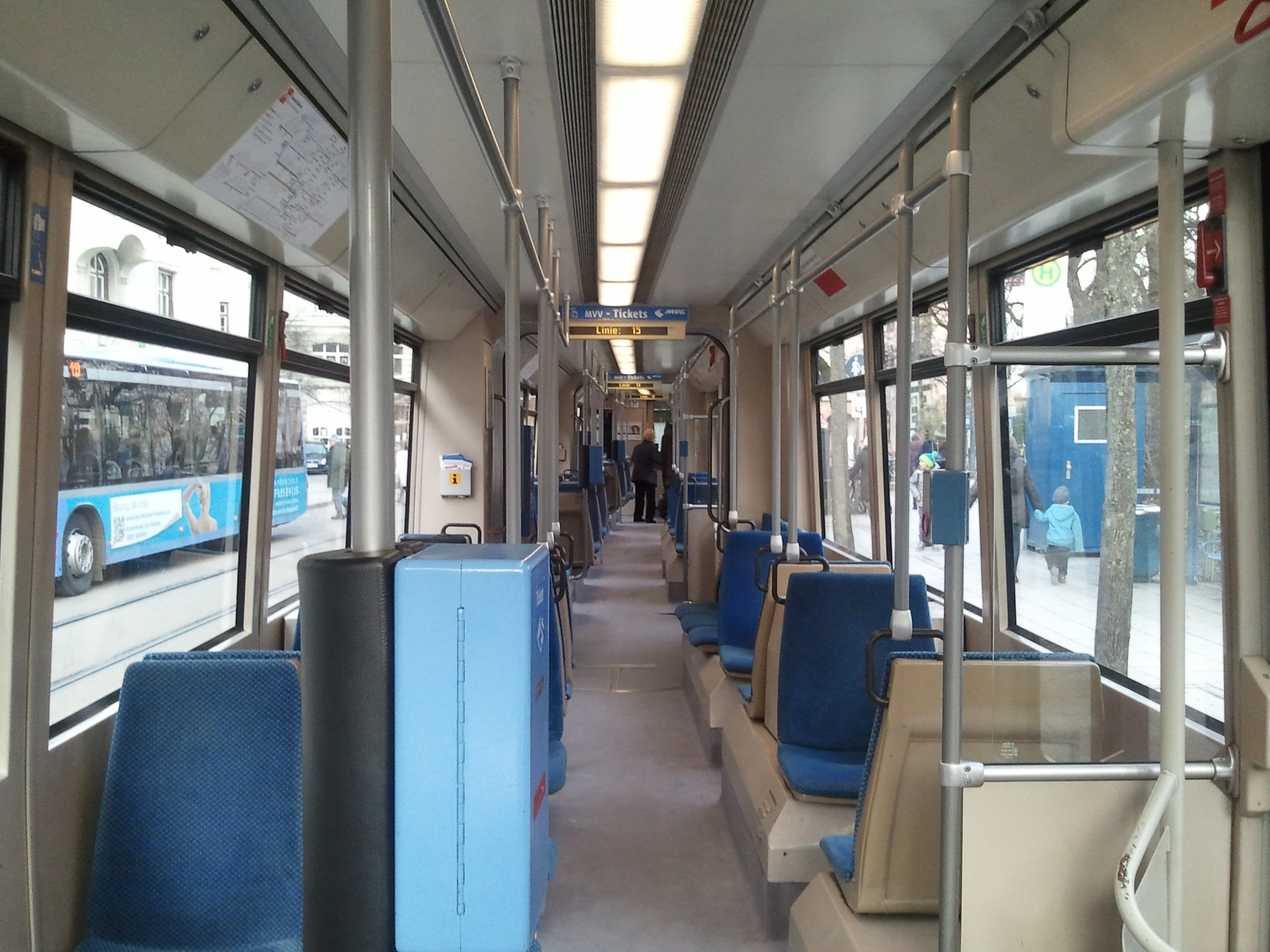 Tram R 2.2 inside